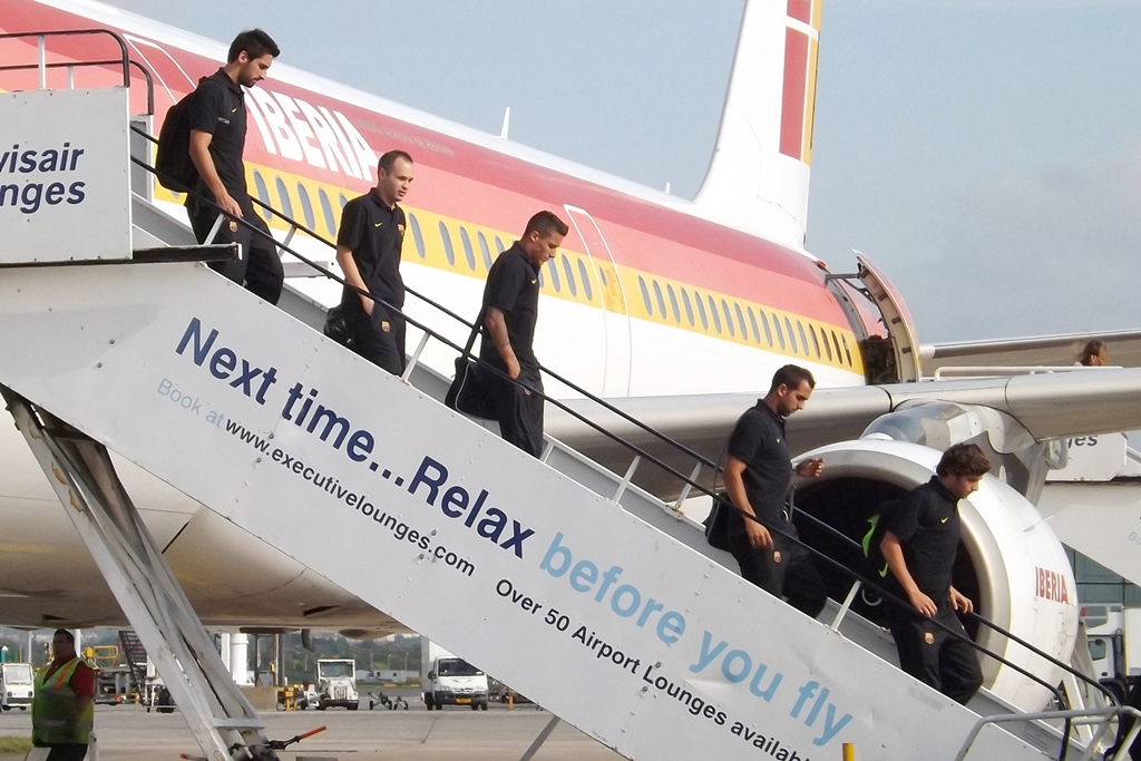 Barcelona FC arriving in Glasgow for their Champions League tie with Glasgow Celtic